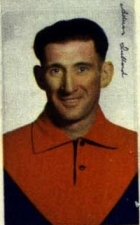 Photo of Adrian Dullard taken before 1949